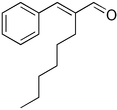 Chemical structure of hexyl cinnamaldehyde